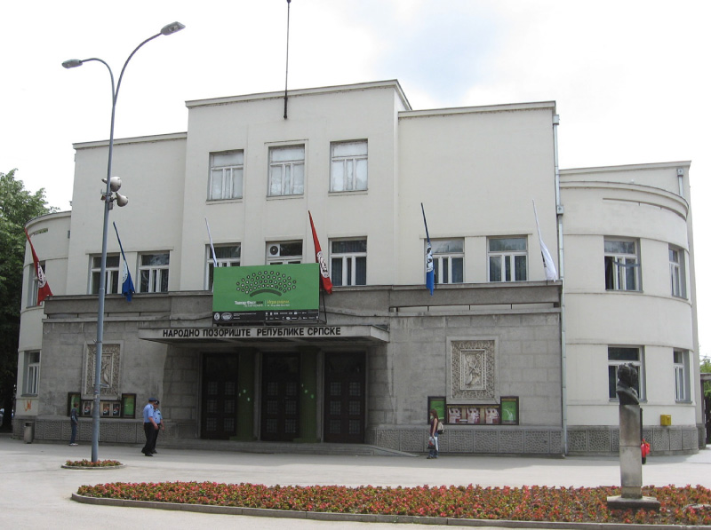 Image of Narodno pozoriste Republike Srpske